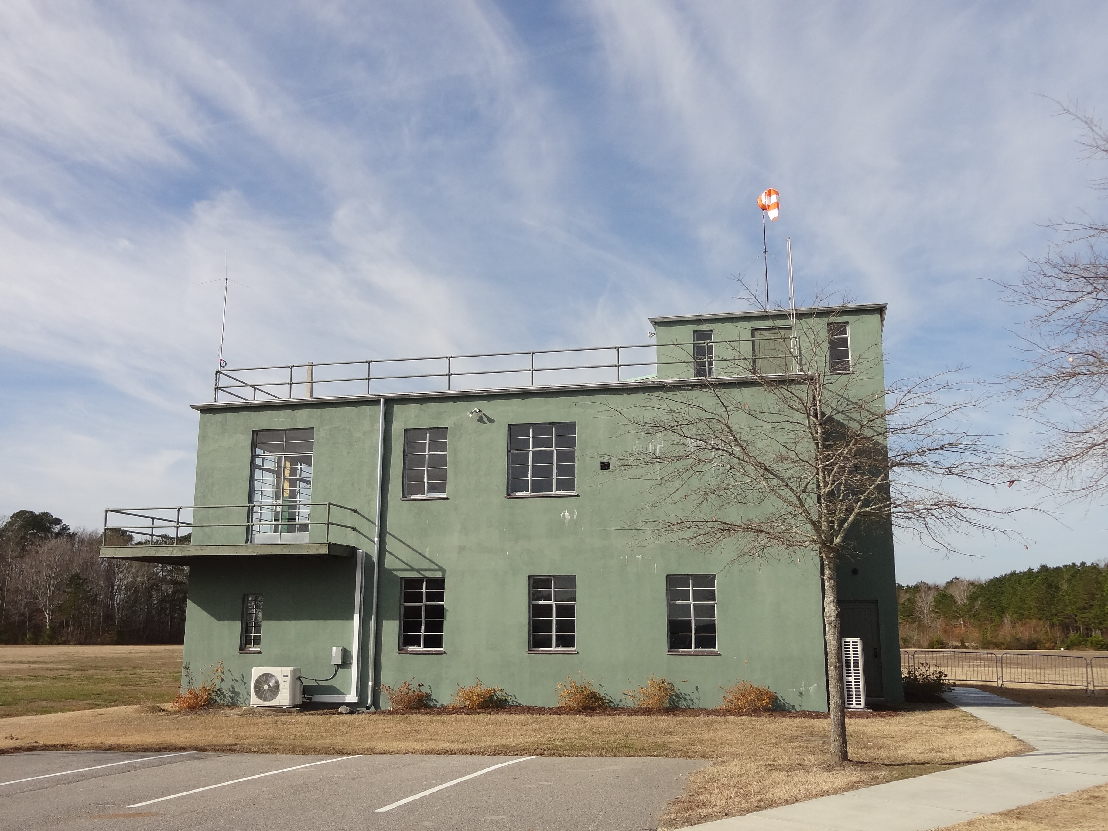 Recreation of RAF Goxhill Control tower at the Military Aviation Museum